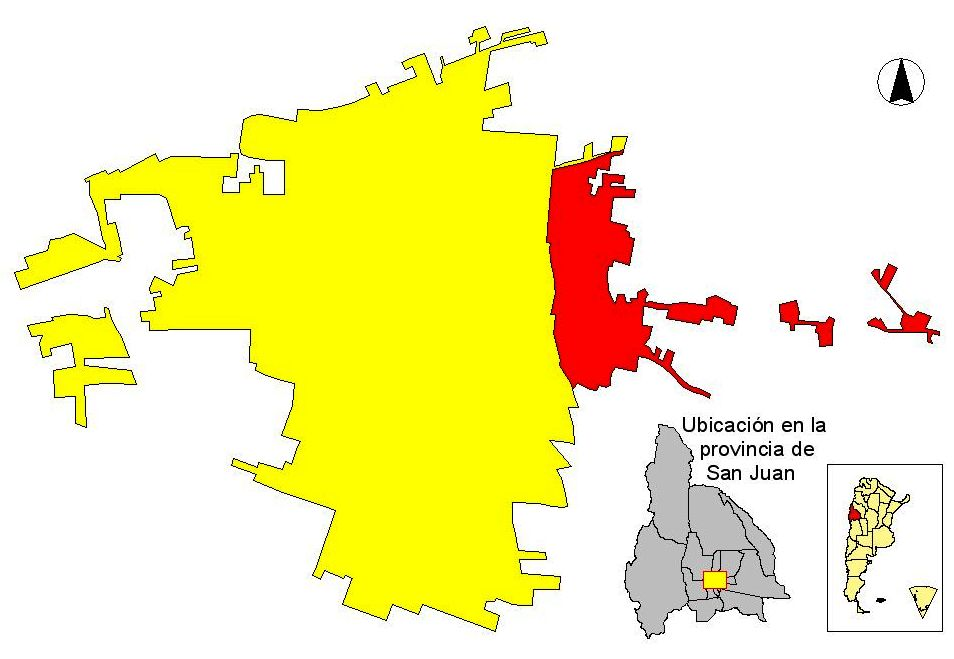 Map depicting the localizacón the Santa Lucía Component within the urban agglomeration of Great San Juan, located in the San Juan Province, Argentina.